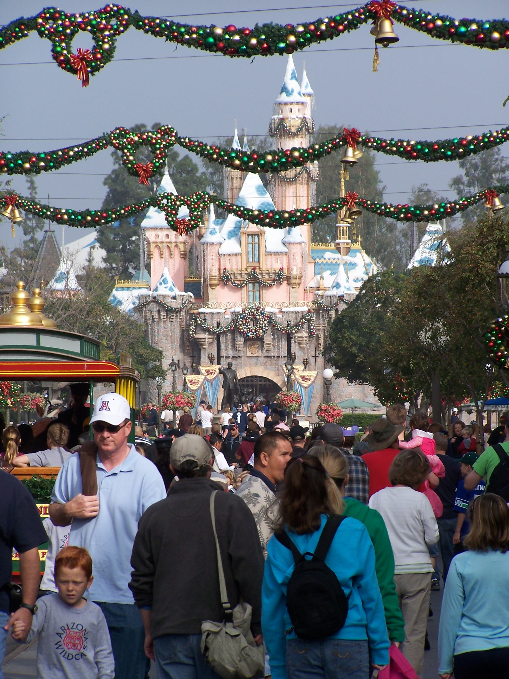 A view of Main Street, USA looking towards Sleeping Beauty's Castle.